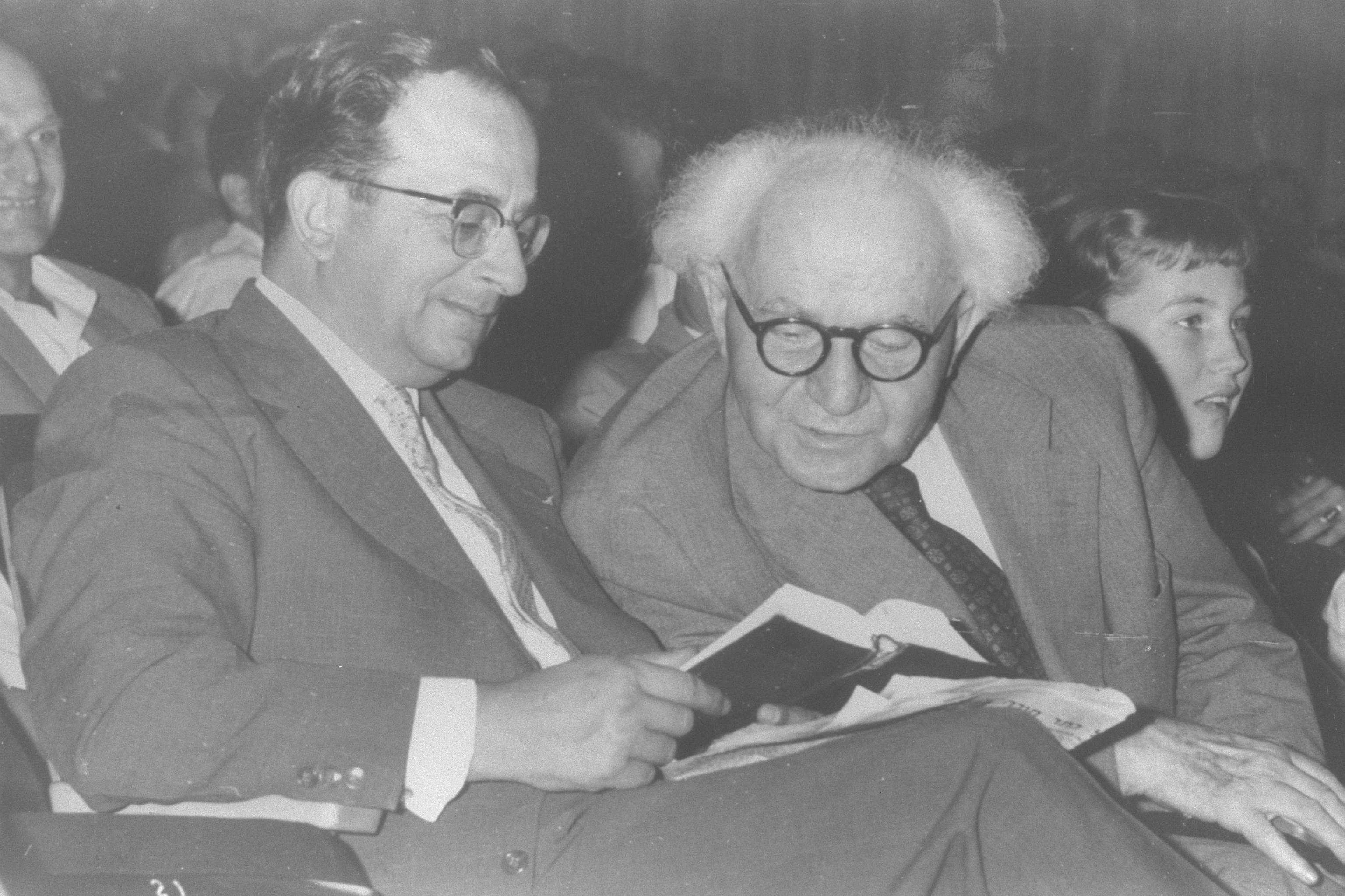 P.M. DAVID BEN GURION AND HIS BUREAU CHIEF, YITZHAK NAVON BROWSING THROUGH A COPY OF THE BIBLE